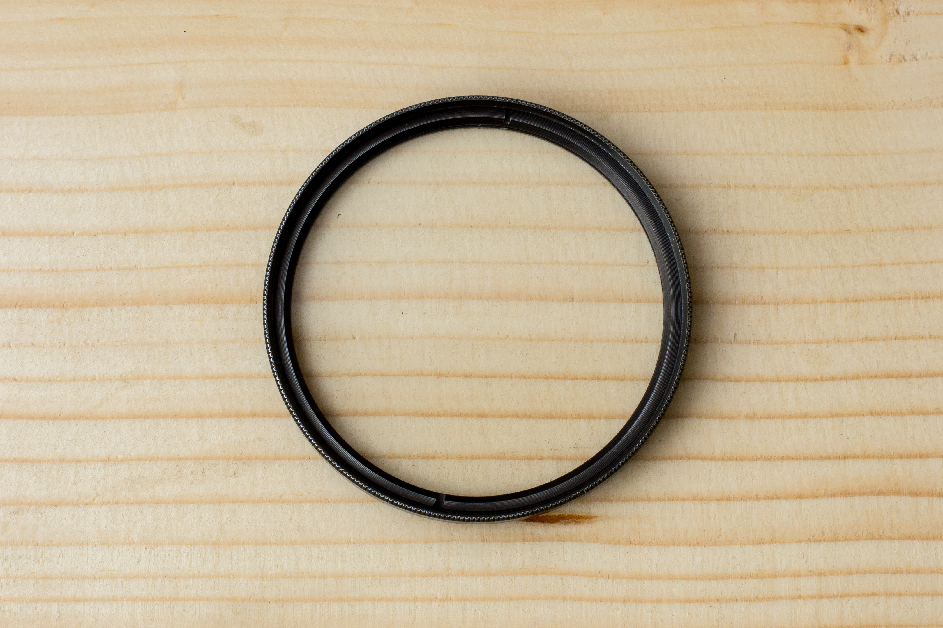 UV Filter